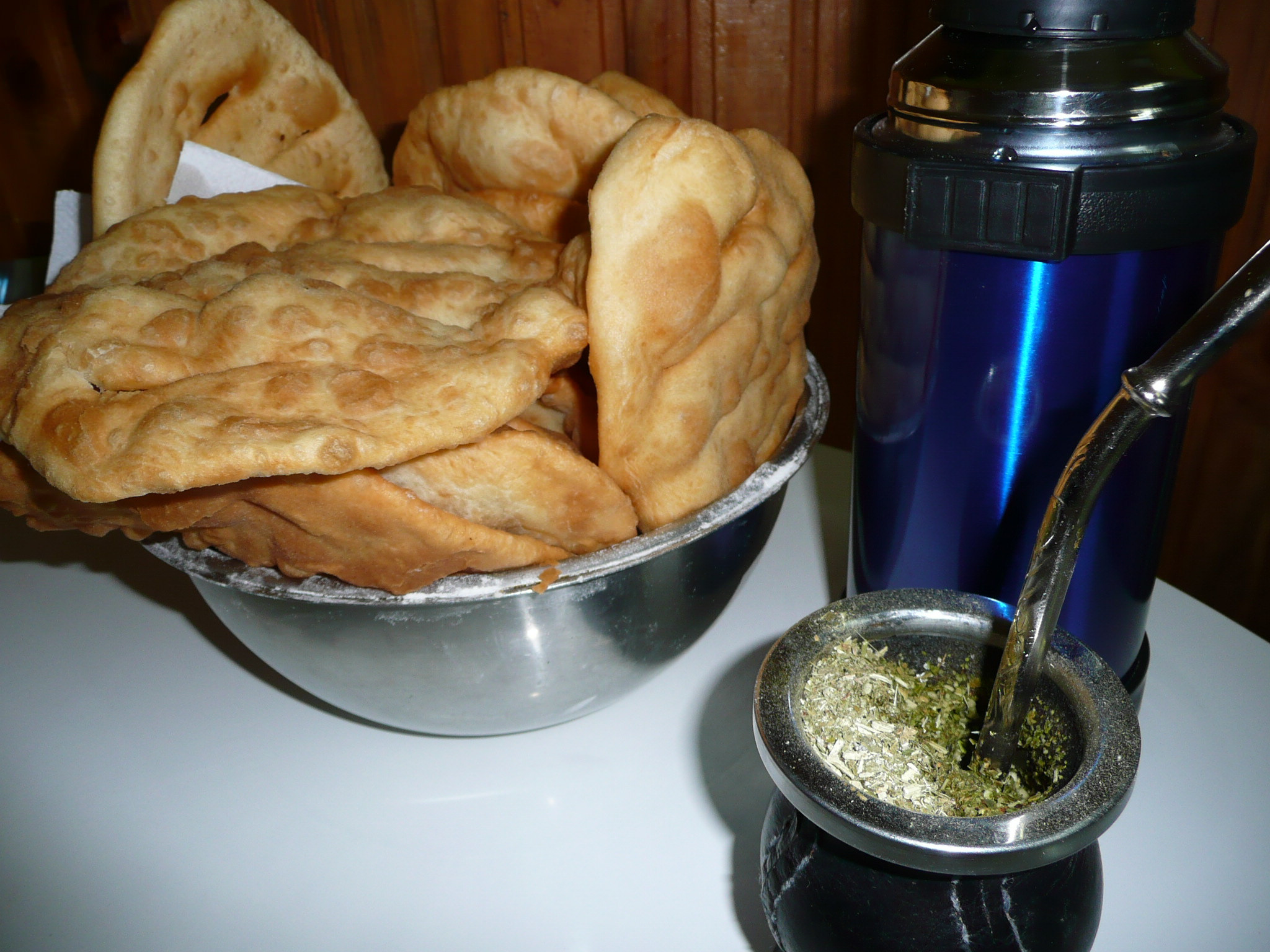 Mate amargo y tortas fritas